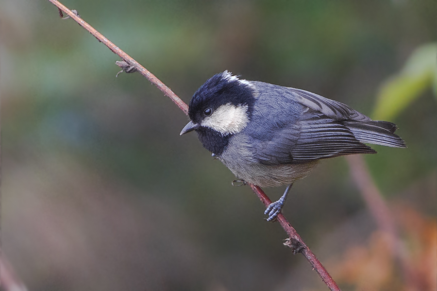 The species Rufous-vented Tit had been photographed at Lungthu in Pangolakha WLS in East Sikkim, India on 18.10.2015 during GoingWild's birding trip.